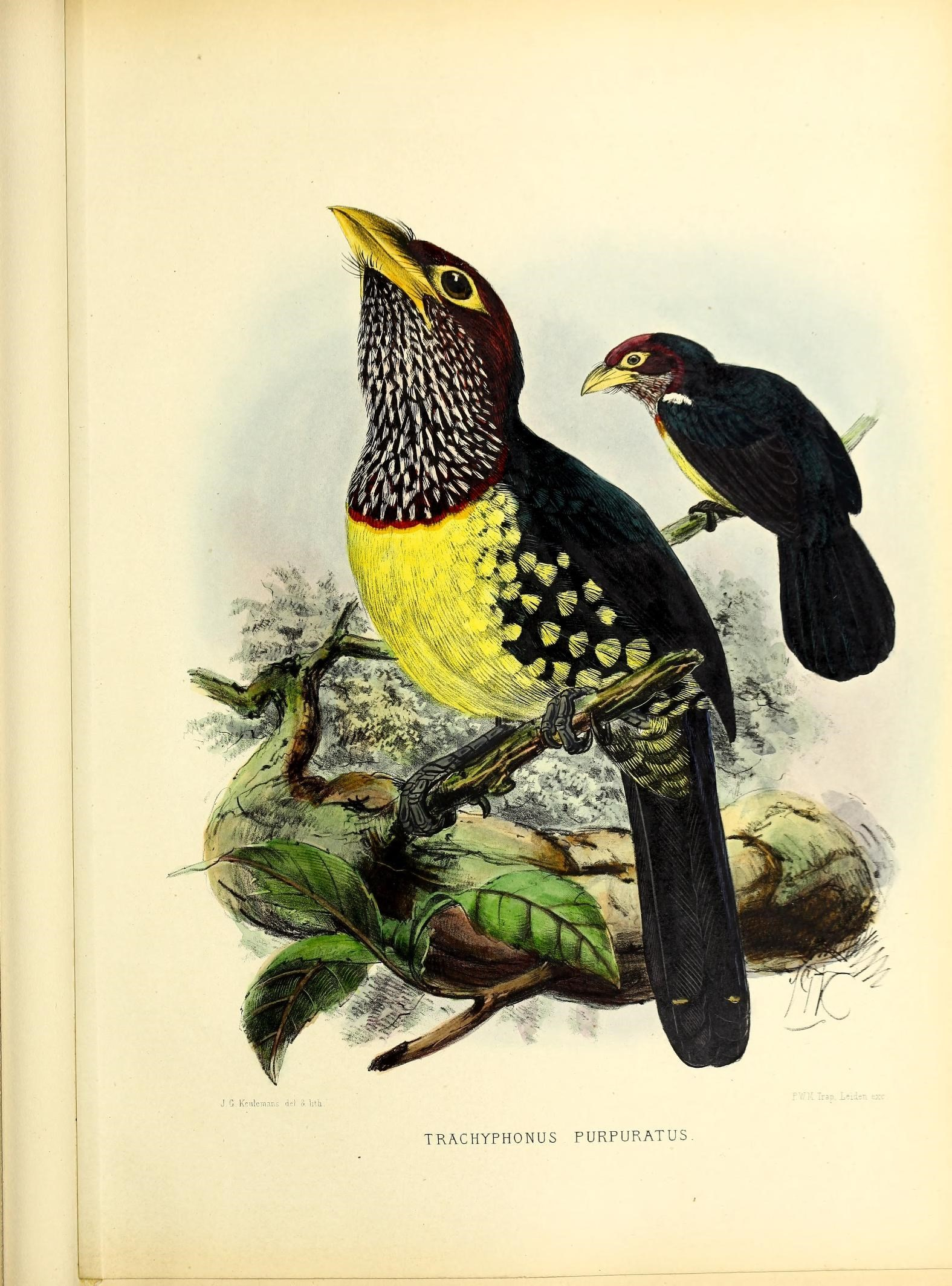 TK/^CHYPHONUS PURPURATUS